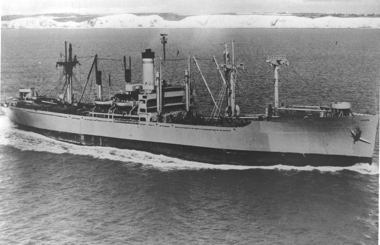 USNS Lt. George W. G. Boyce (T-AK-251) underway, date and place unknown.